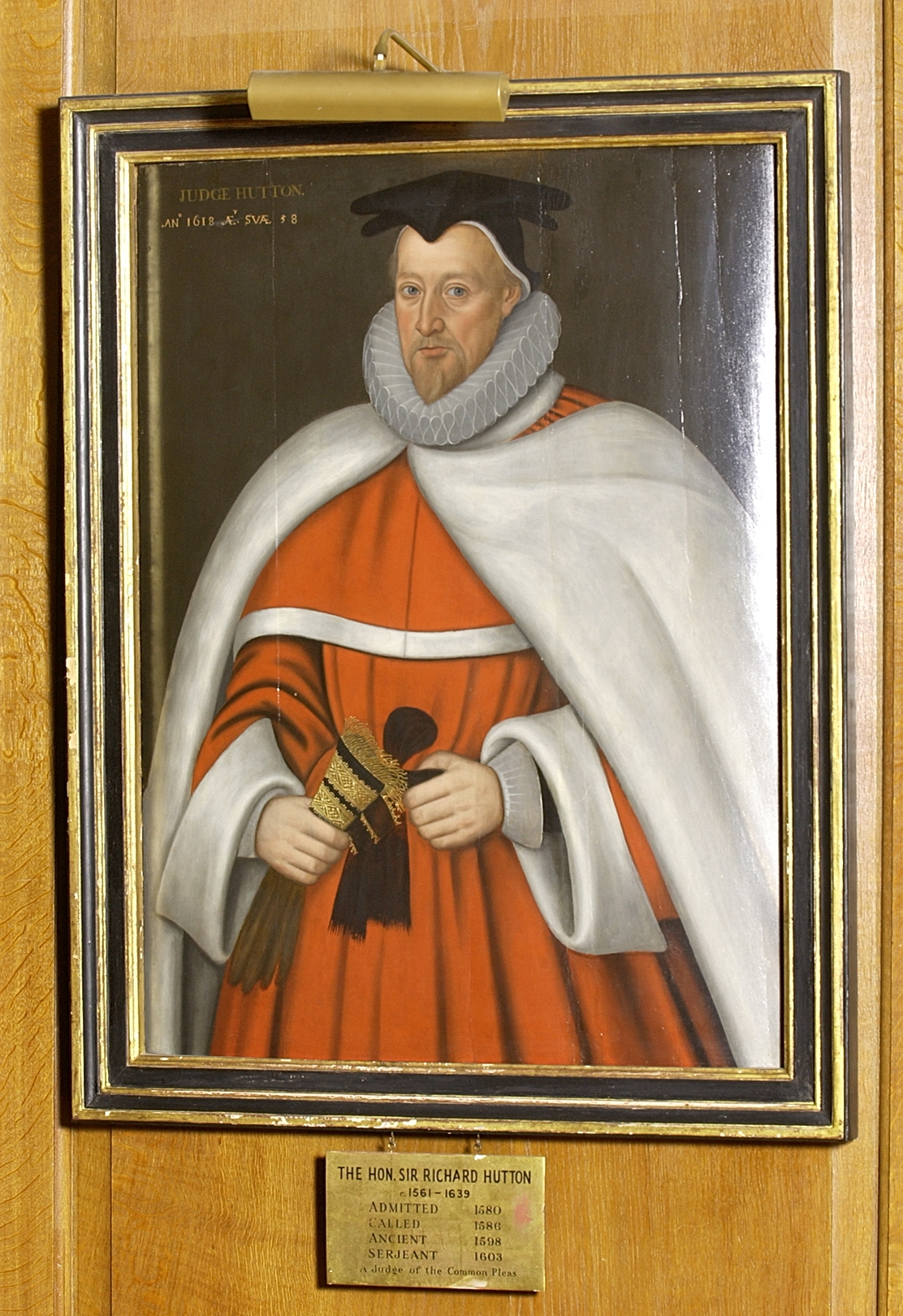 Portrait of Sir Richard Hutton, dated 1618 Painter unknown Reproduced by kind permission of the Treasurer and Masters of the Bench of Gray's Inn